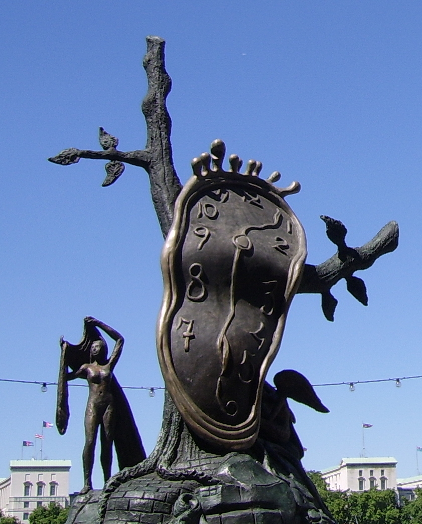 Nobility of Time by Salvador Dalí